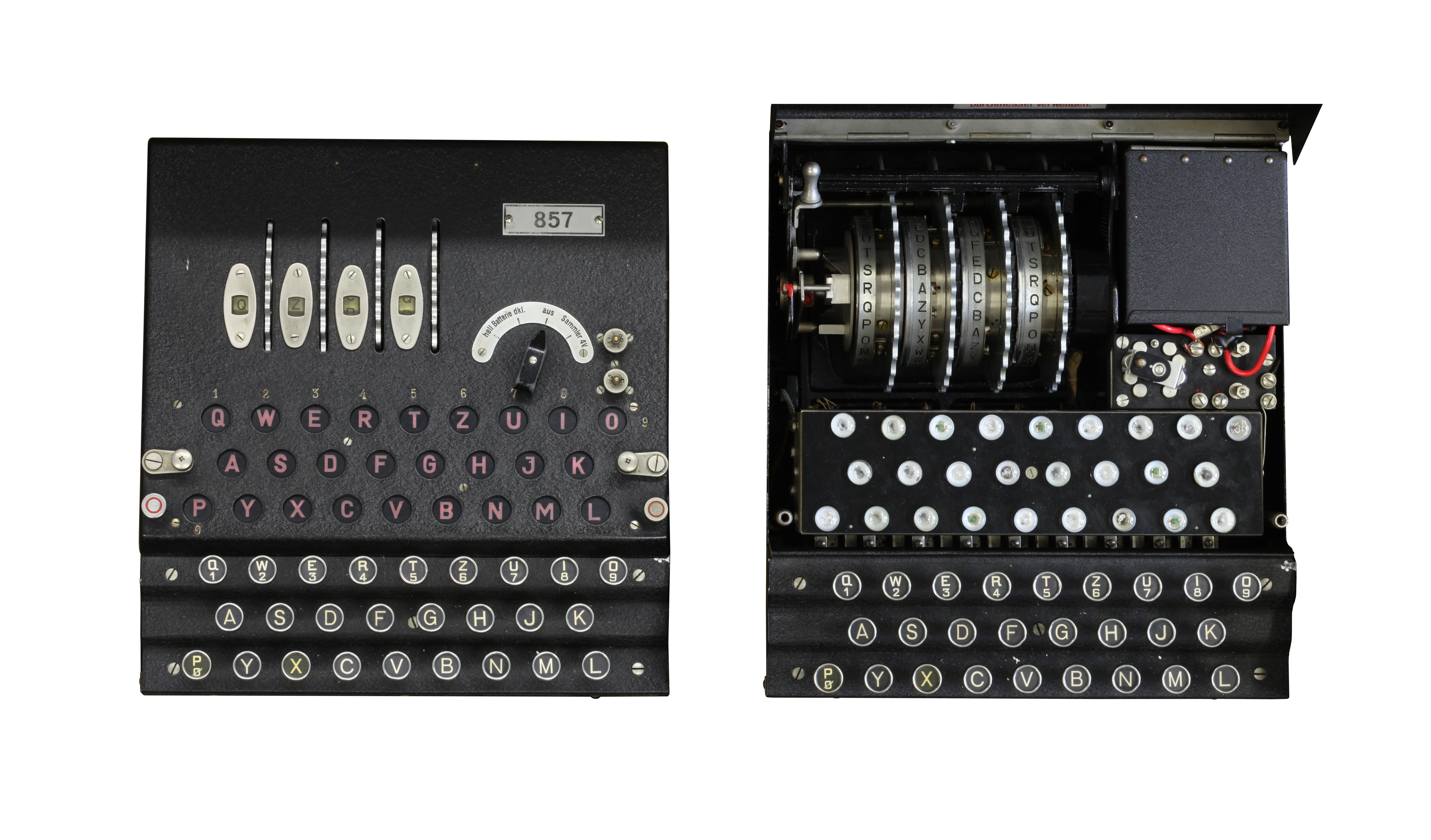 Enigma-K machine of the Swiss Army. Cryptography collection of the Swiss Army headquarters The making of this document was supported by Wikimedia CH. (Submit your project!) For all the files concerned, please see the category Supported by Wikimedia CH.